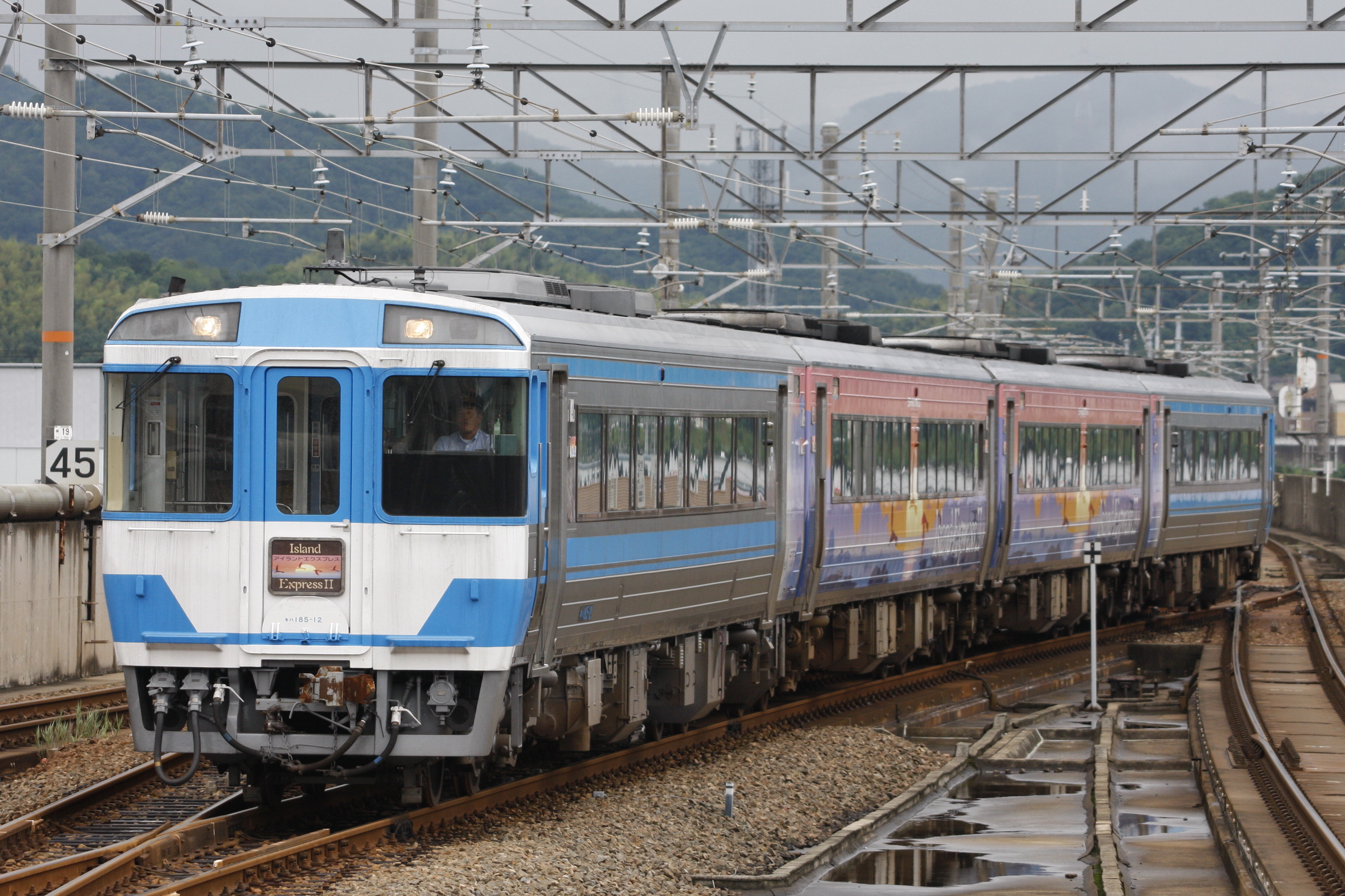 Island Express Shikoku II at Chayamachi Station